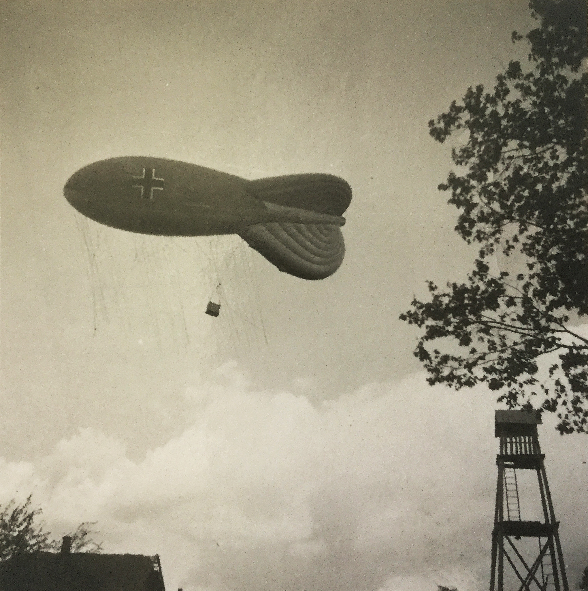 Original text (photo album): Nowo-Jarylowitschi, south of Gomel. 28.8-1.9.41 / The runway south of Gomel is fiercely contested. Our artillery has placed its observer in the "inflated Gustav".